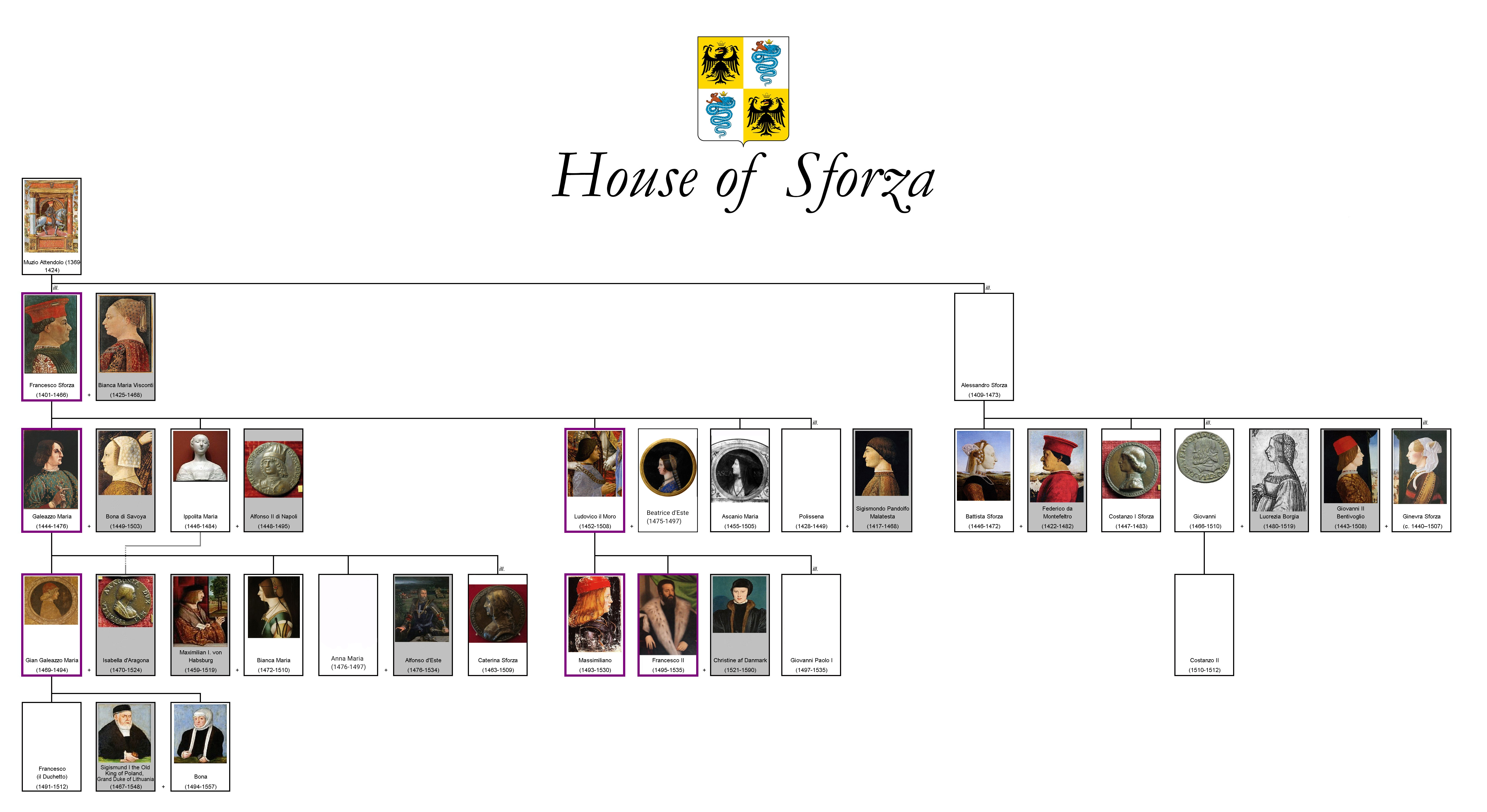 Genealogy tree of House Sforza.